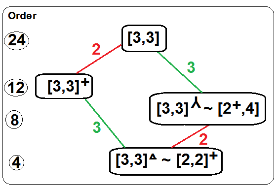 Coxeter notation examples